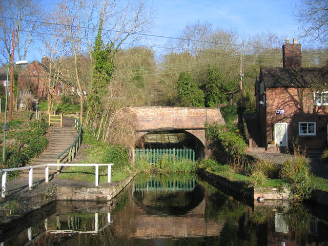 Hay Inclined Plane. Looking up the plane from the lower end where it meets the re-excavated length of the Coalport branch of the Shropshire Union Canal. Tub boats would have been lowered down the plane and into the water on railway cradles and then floated off along the canal.